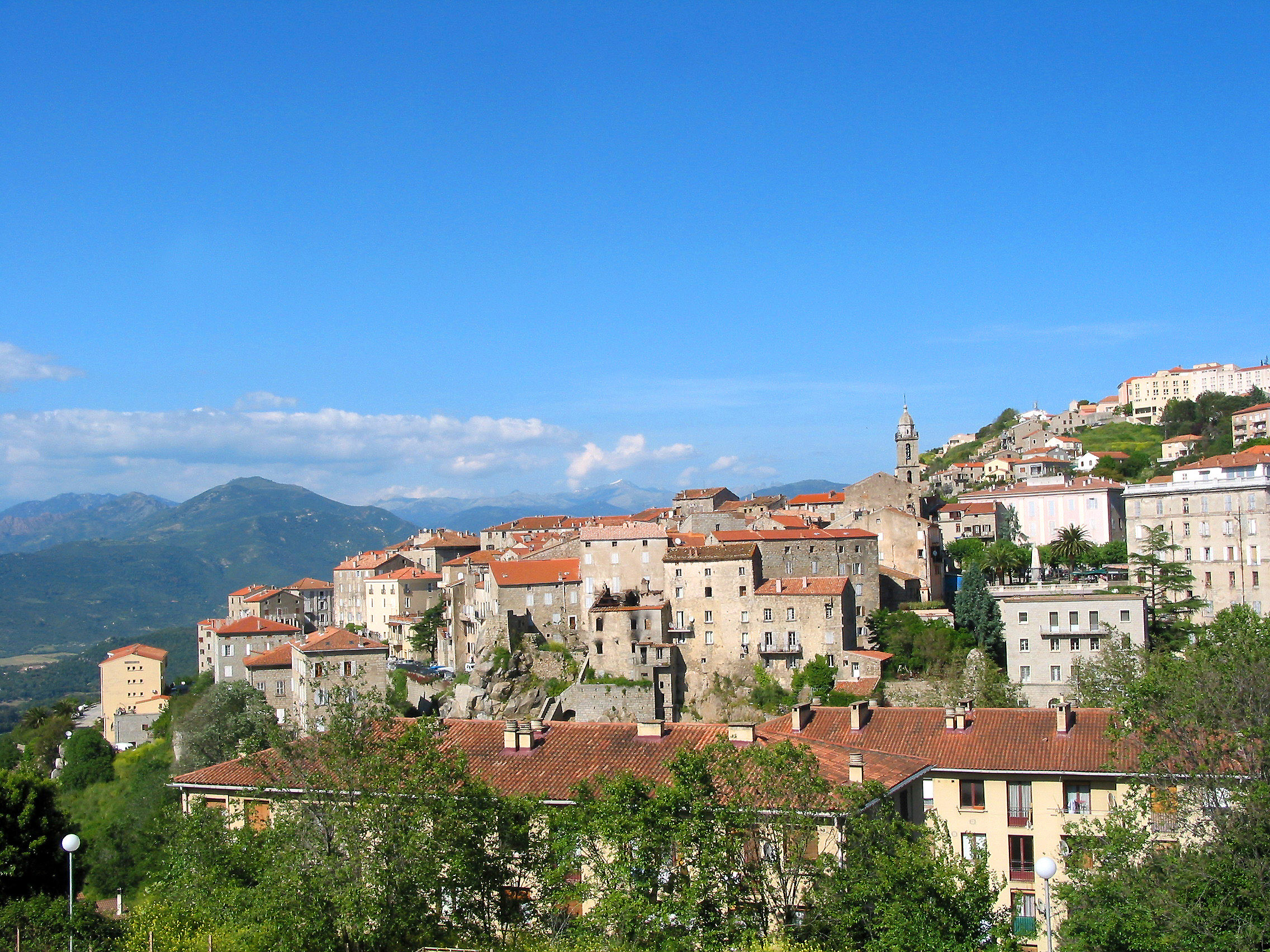 Sartène (Corse du Sud), France, the old city. Corsu: Sartè Francia (Corsica suttana), u vechju cita. Walon: Sartène – France (Corse do Sud), li vîye vile